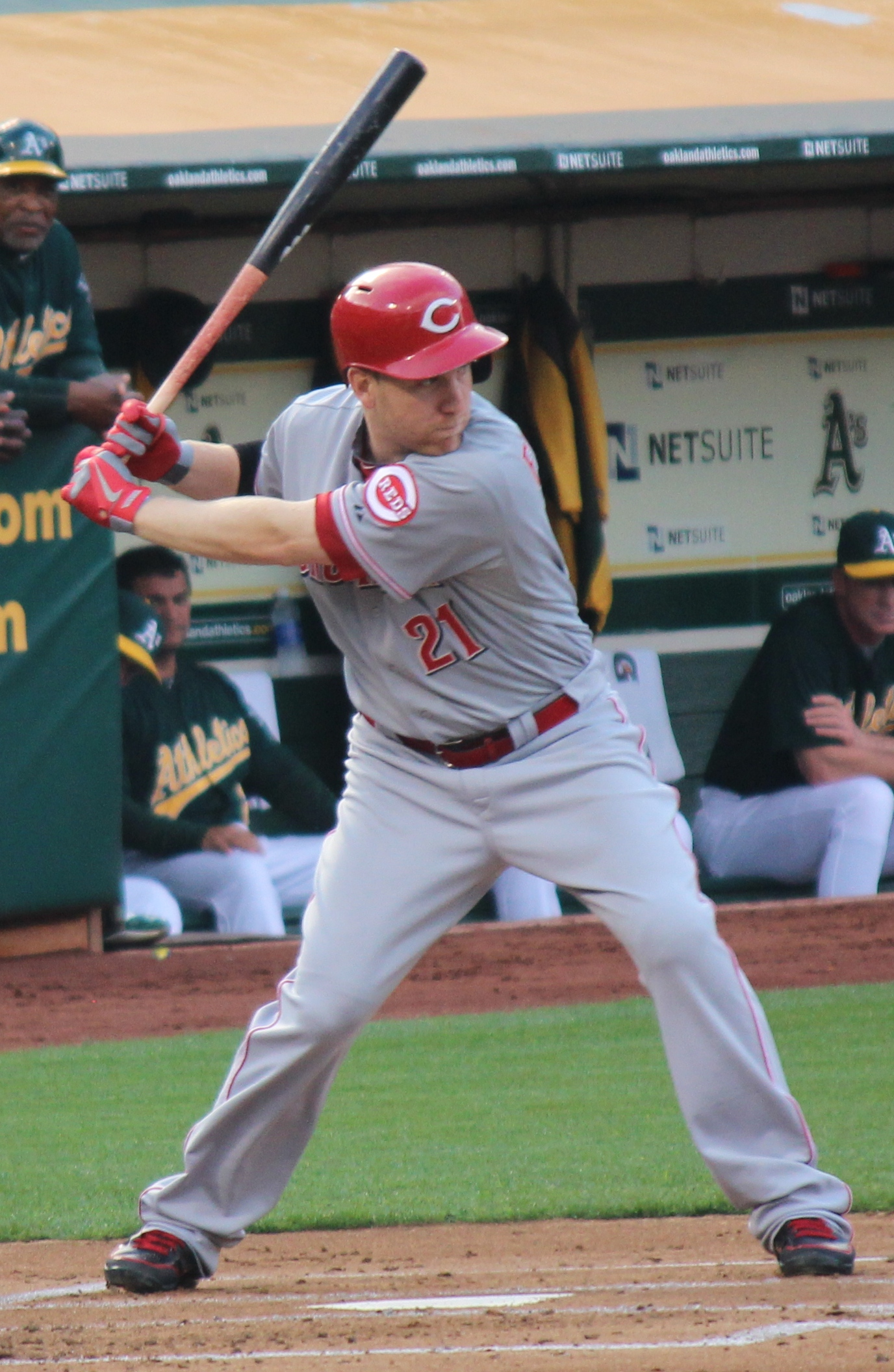 Photo of Todd Frazier, 2013-06-25, Oakland CA